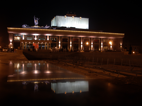 Altai Drama Theatre at night